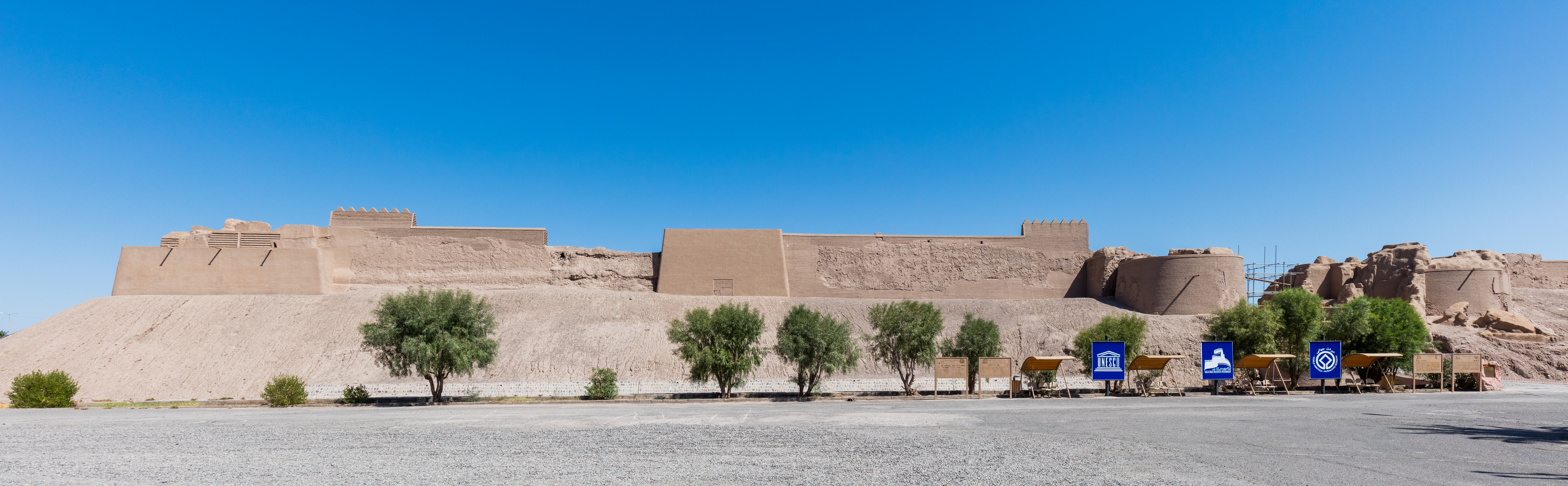 Fortress of Bam, Iran